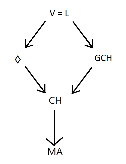 Implication Chains of Undecidable ZFC Statements